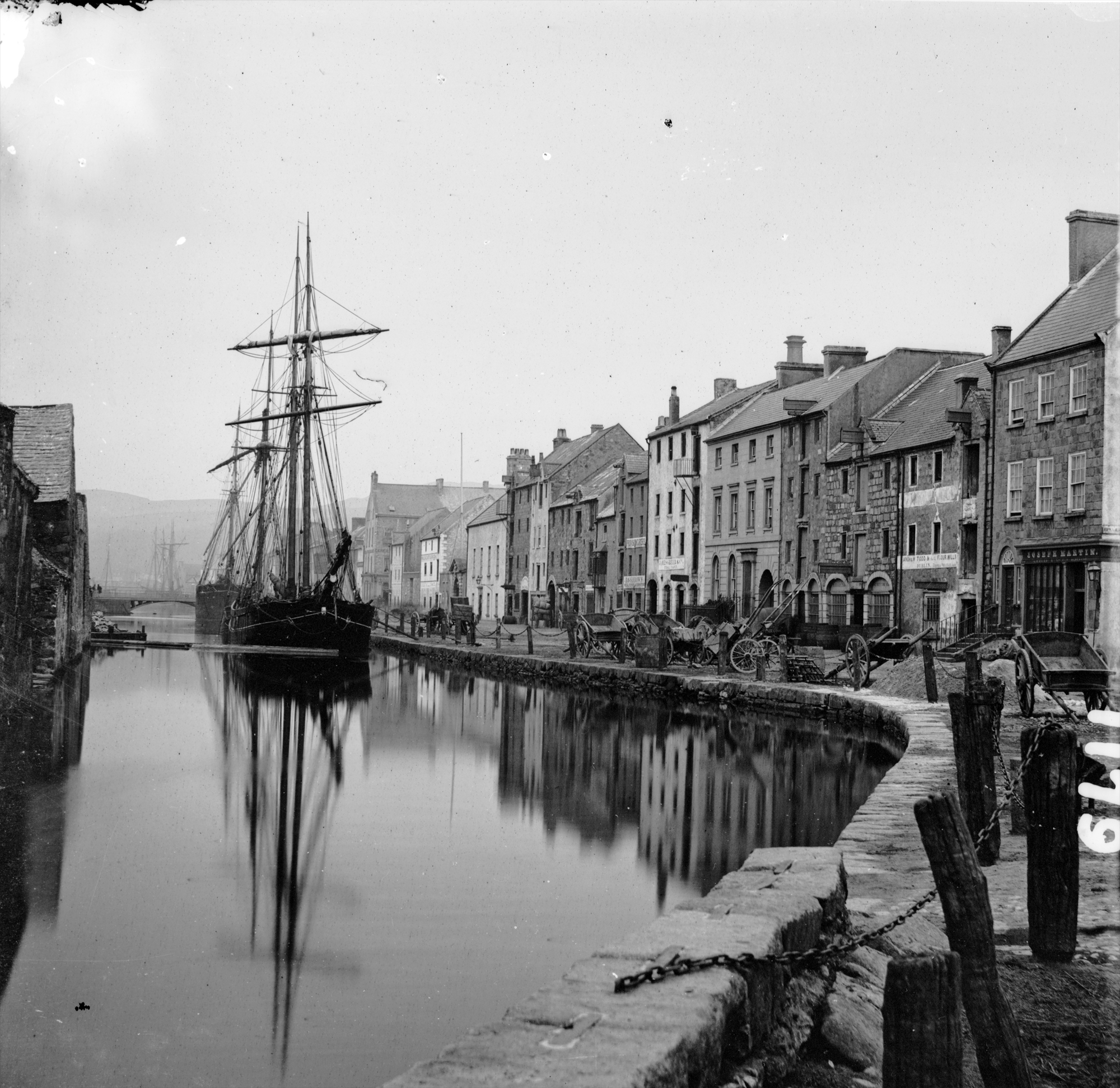 Ships on the canal at Merchants Quay in Newry, alongside a nice brace of merchants' premises. Date: 1870s? (but definitely between 1860 and 1883)